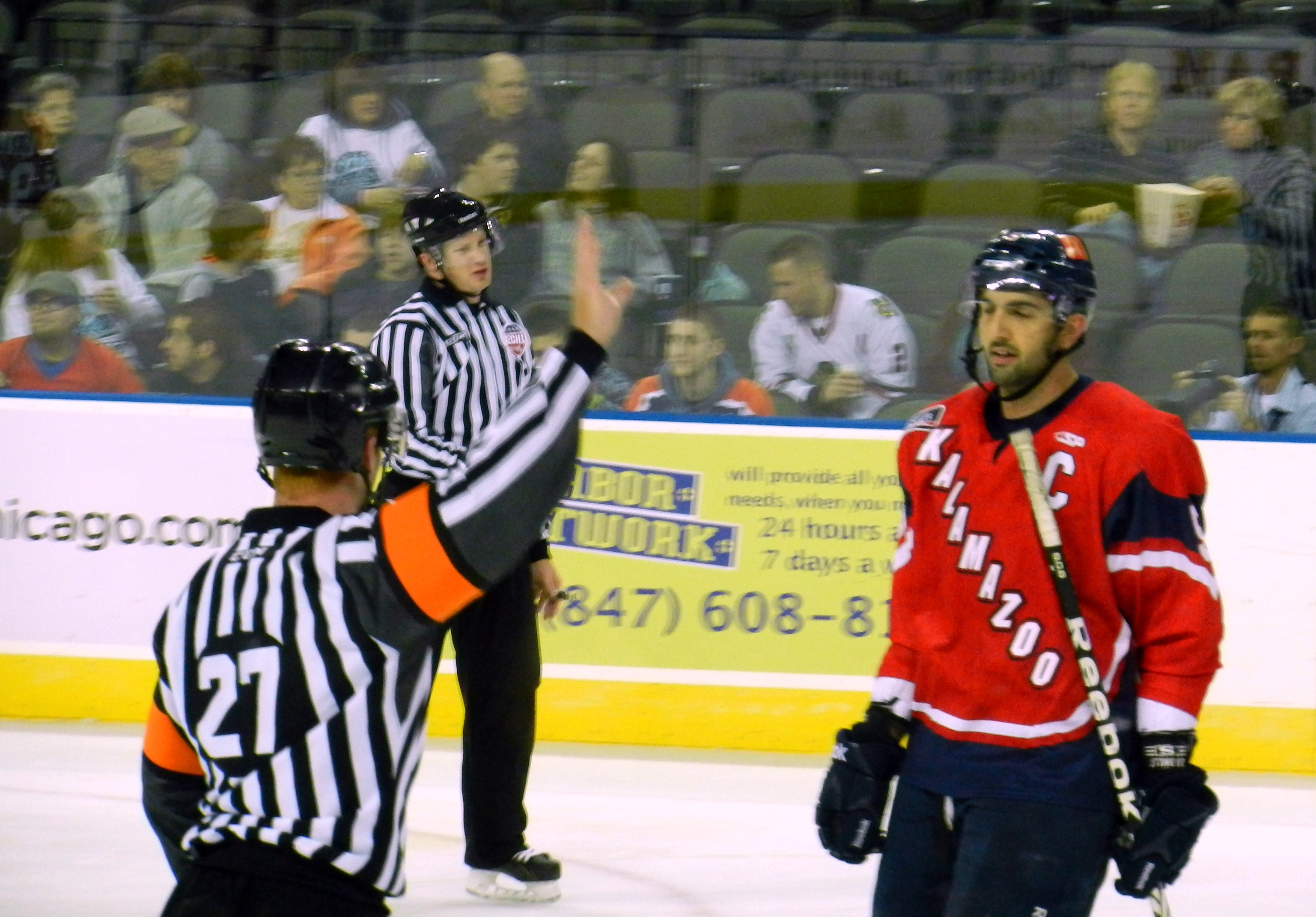 Wes O'Neill speaking with a referee following a penalty, during a Kalamazoo Wings game against the Chicago Express